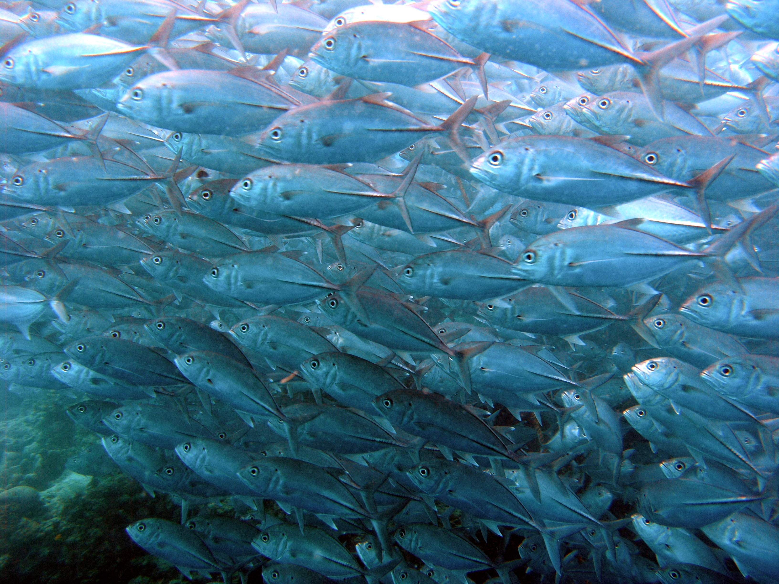 School of Bigeye trevally. Caranx sexfasciatus. Taken at Sipadan, Malaysia.